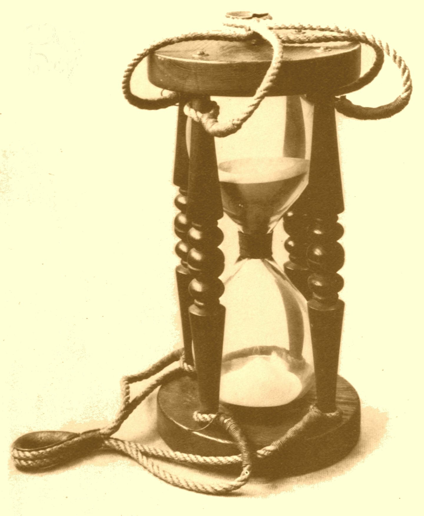 Marine_sandglass_deus_lo_volt: from book:The new American practical navigator : being an epitome of navigation ; containing all the tables necessary to be used with the Nautical almanac in determining the latitude, and the longitude by lunar observations, and keeping a complete reckoning at sea ; the whole exemplified in a journal, kept from Boston to Madeira ; with an appendix, containing methods of calculating eclipses of the sun and moon, and occultations of the fixed stars